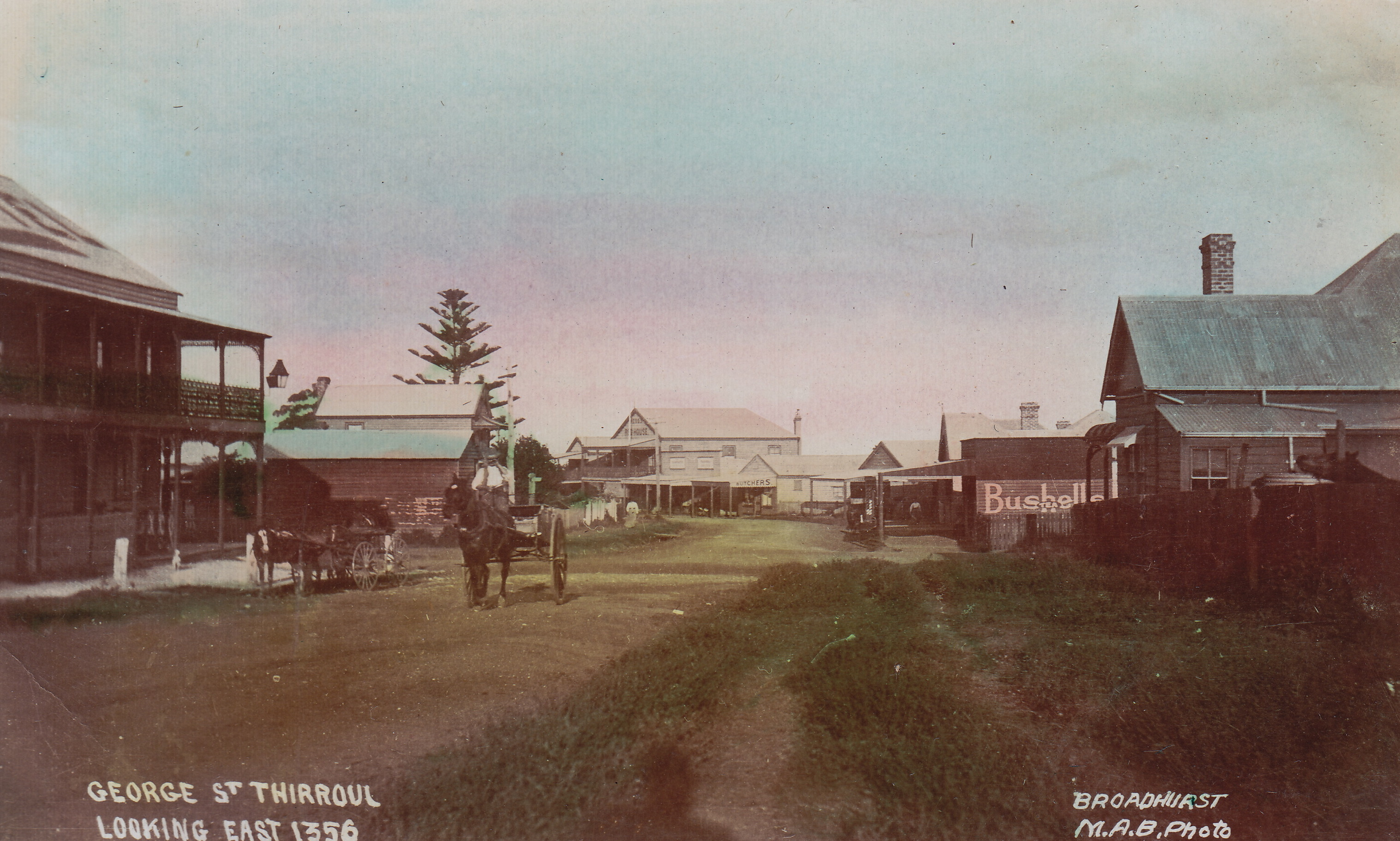 The Royal Australian Historical Society is heading to Wollongong to stage its annual conference on Saturday 22nd and Sunday 23rd October at Centro CBD – 28 Stewart St. Wollongong NSW. The digital revolution is impacting how we research and produce history. There is also an increasing appetite for local and community history that connects people to their identity and place. History plays a critical role in advocacy campaigns to ensure that these places remain part of our cultural landscape in this era of widespread urban development. How historical societies engage with these developments is critical to ensure their continued relevancy in 21st century Australia. The RAHS invites you to join us to explore these topics, learn skills that will support your history projects and enjoy opportunities to network and share histories with RAHS members and friends. Attend an historical tour and our conference dinner on the Saturday evening. Conference details are on our website, which includes the full program and booking form: Go straight to the program and booking form here